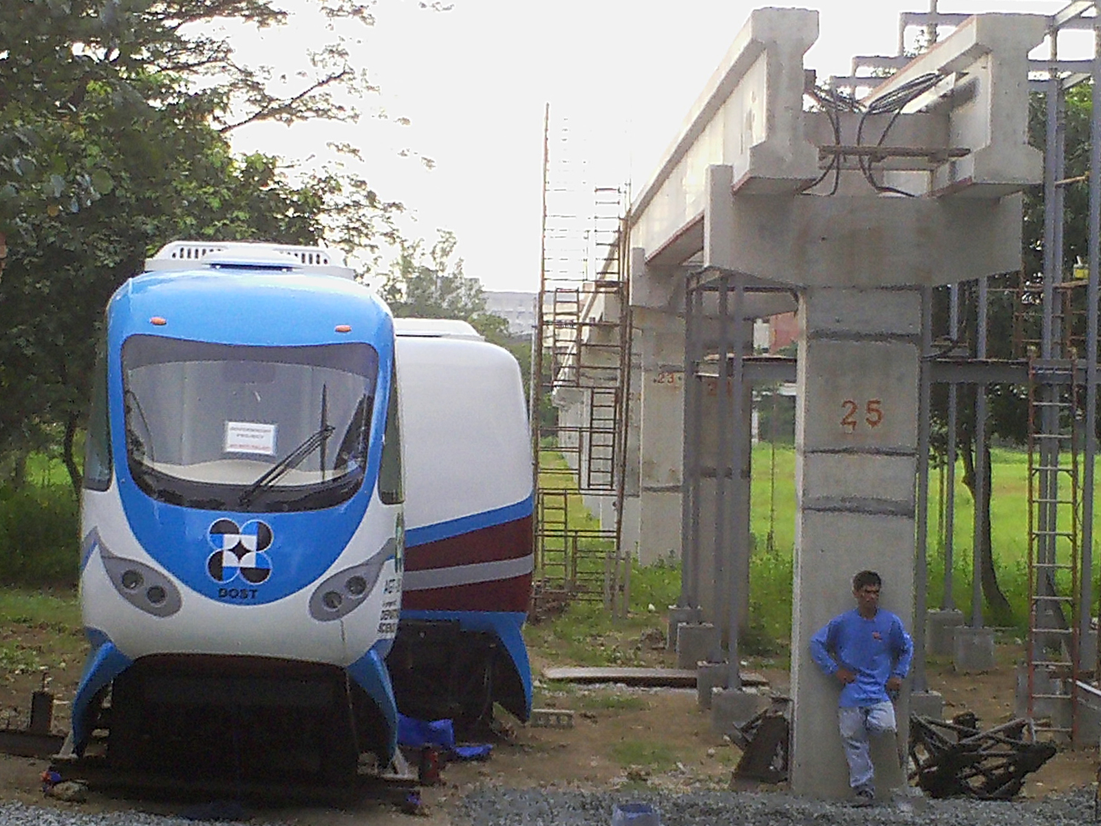 UP Diliman Monorail at UP Campus in Quezon City, Philippines Source Photo taken in UP Diliman, Quezon City Previously published